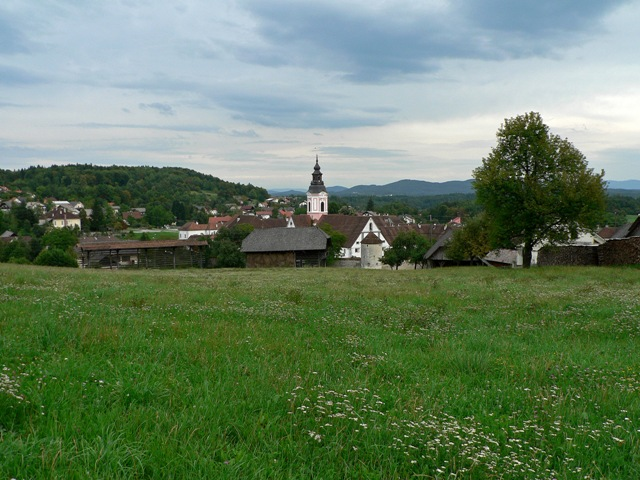 Stična Abbey. View